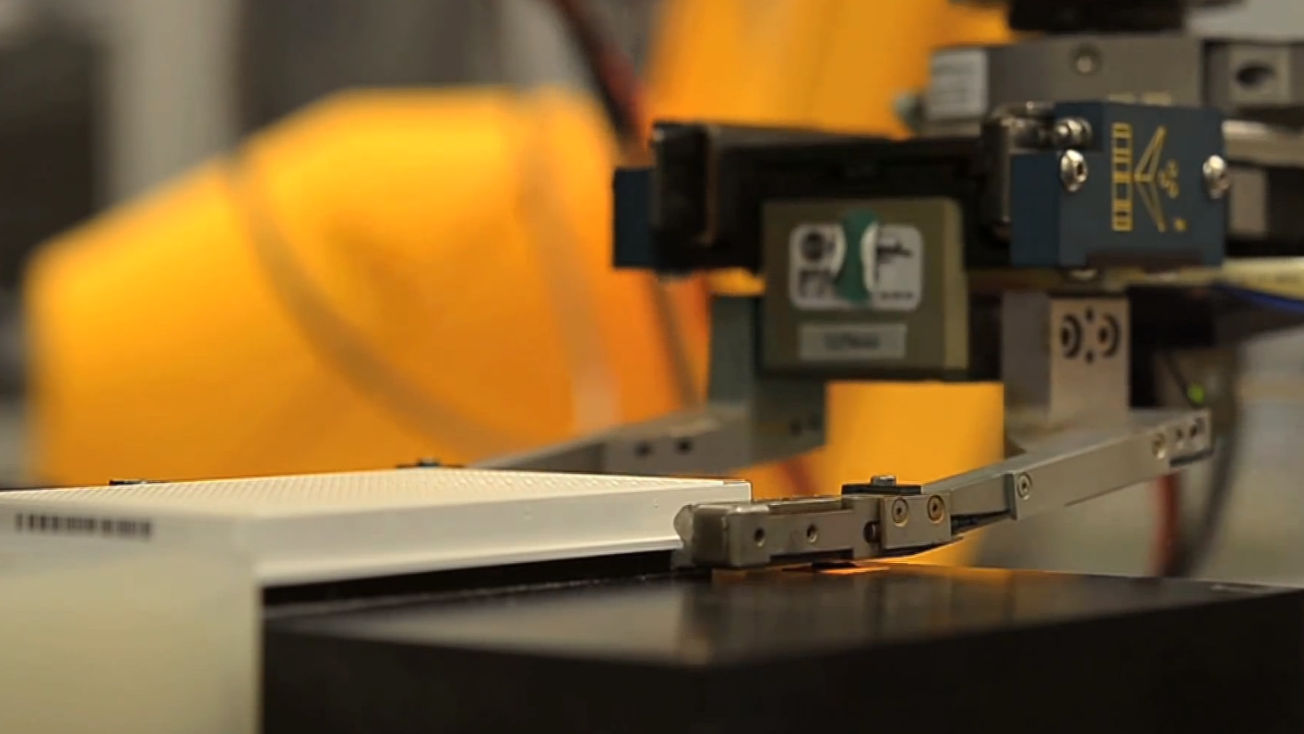 A robot arm handles an assay plate in high-throughput screening process. This image is from video titled "Using 3D Printing to Advance Science" created by NIAID.